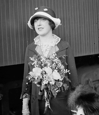 Informal half-length photo portrait of Mabel Normand, a silent film actress, wearing a bouquet of flowers, standing next to a train at a station in Chicago, Illinois.